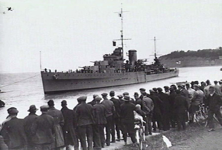 AWM Caption: C.1937. PORT BOW VIEW OF THE LIGHT CRUISER HMS NEPTUNE. SHE HAS NOT YET HAD HER AA ARMAMENT AUGMENTED BY THE REPLACEMENT OF THE SINGLE 4 INCH MARK V GUNS ON MARK IV HA MOUNTINGS BY TWIN 4 INCH MOUNTINGS. (NAVAL HISTORICAL COLLECTION)